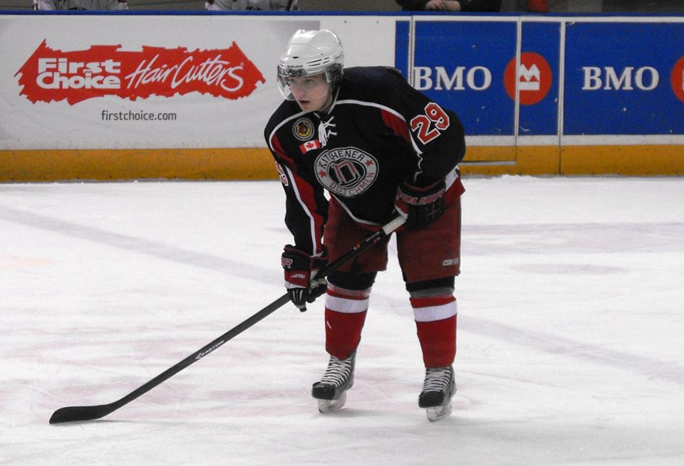 This photo was taken by Devan Mighton during the 2013-14 GOJHL season.